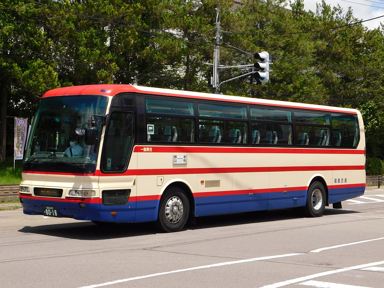 Fukushima kotsu Mitsubishi Fuso Aero Bus (KL-MS86MP)on highwaybus "AizuWakamatsu-Koriyama"